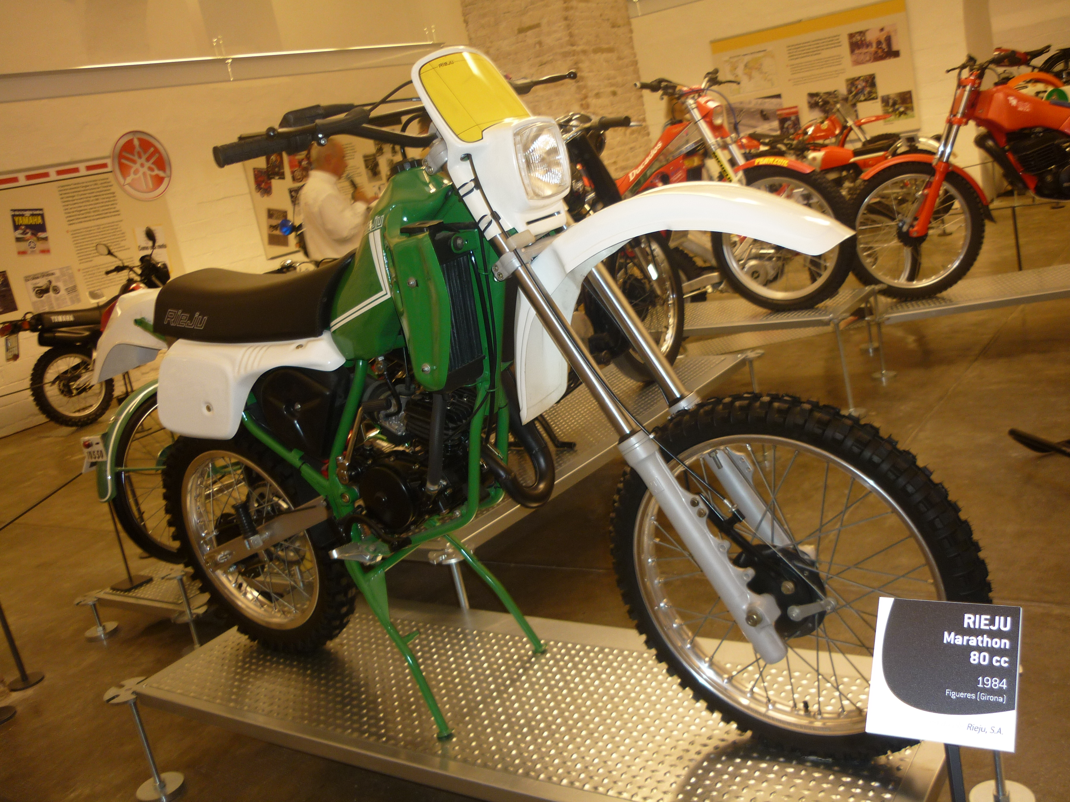 Rieju Marathon 80cc (1984).Museu de la Moto de Barcelona (Catalonia).